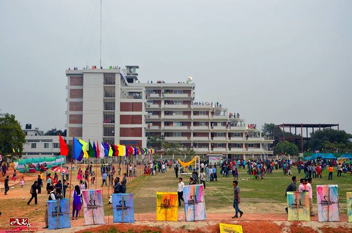 DIU